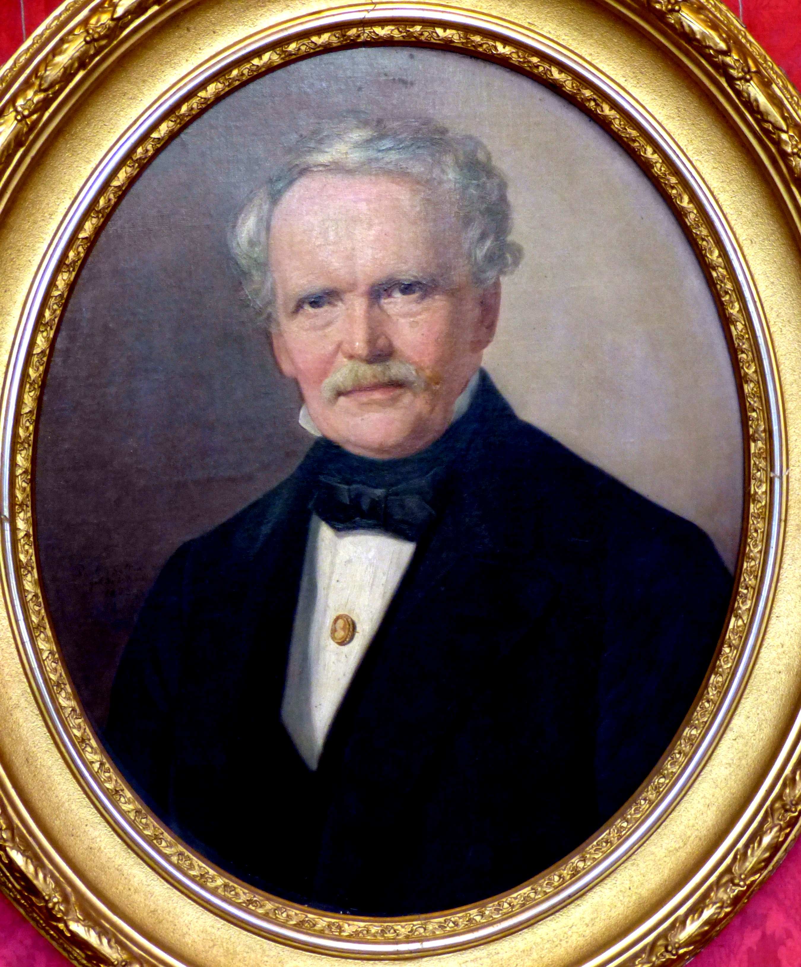 Schwerin Castle ( Mecklenburg ). Portrait ( 1873 ) of Georg Adolf Demmler by Pauline Soltau.